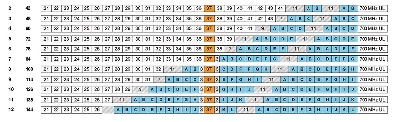 The Federal Communications Commission's estimates on channel use after the 2016-2017 Spectrum auction, depending on how many frequencies broadcasters and mobile phone companies could agree upon. Ultimately, Option 7 was taken (84 MHz, or all television channels above UHF 37) would be re-allocated from television to mobile phone use.